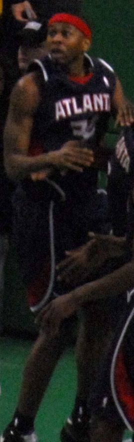 Jeremy Richardson during game 1 of the Boston Celtics/Atlanta Hawks first round NBA playoff series in 2008